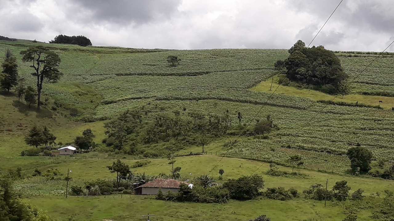 Agricultura en el municipio de Yarula